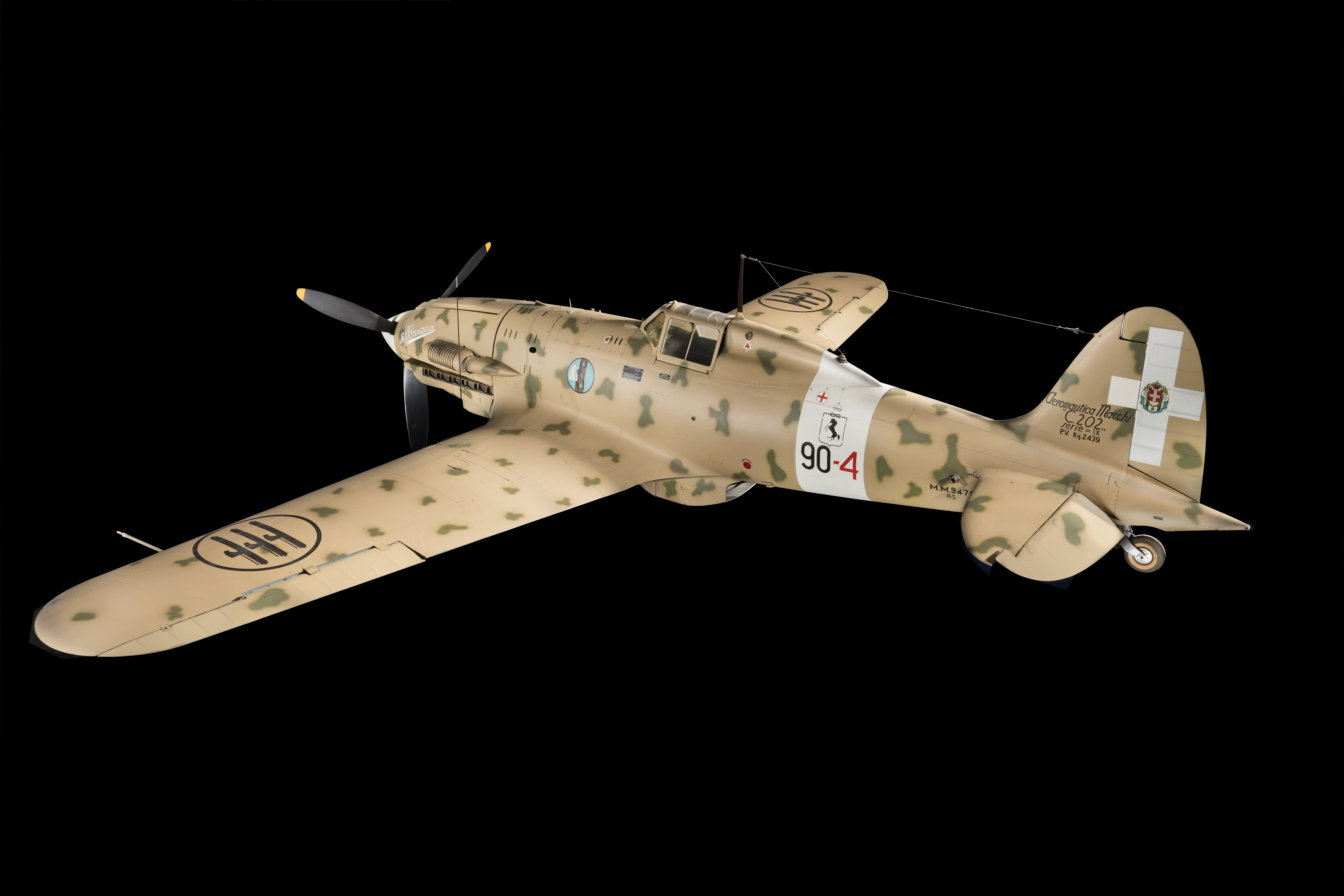 Aeronautica Macchi C.202 Folgore (A19600332000) at the Smithsonian Institution National Air and Space Museum. Photo taken by Eric Long. Photo taken on December 29, 2016. (A19600332000.3T8A4391) (A19600332000-NASM2018-10380)